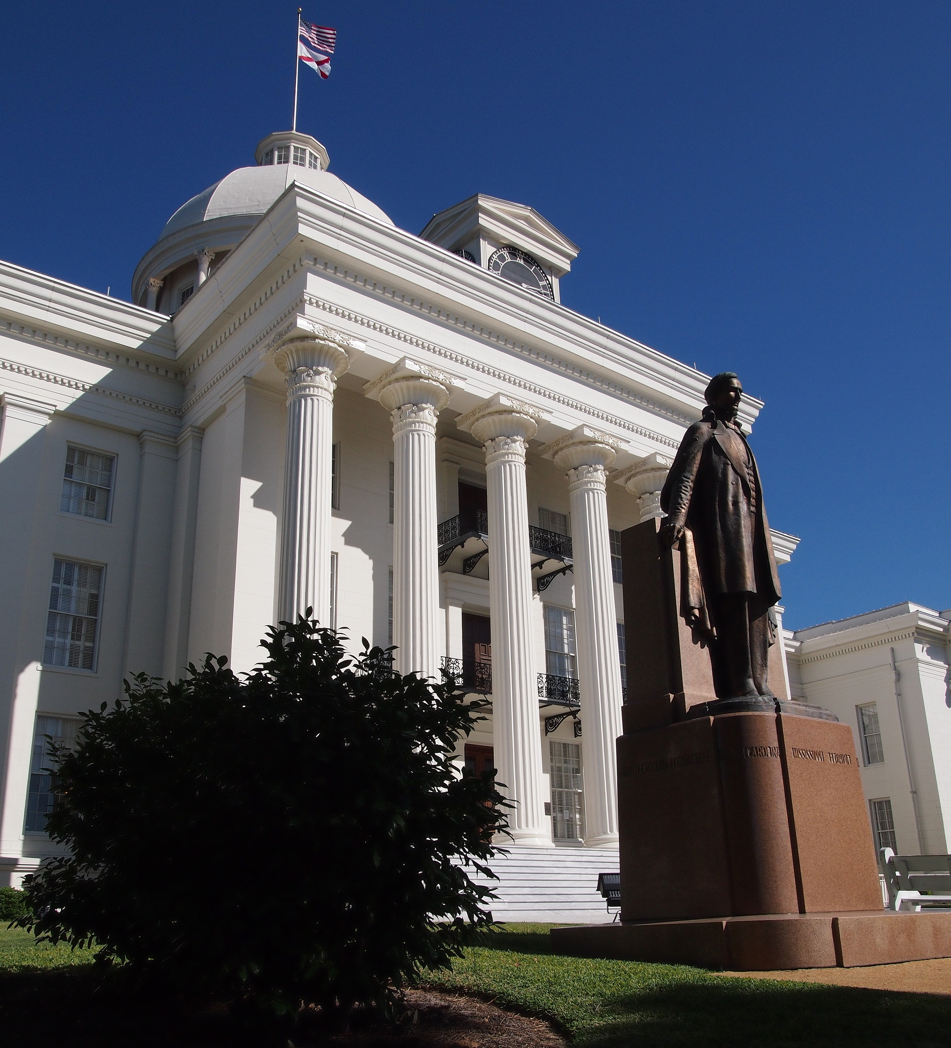 The Alabama State Capitol - The Jefferson Davis statue with the western facade and main entrance of the Capitol in the background. Part of the clock and the dome are visible.